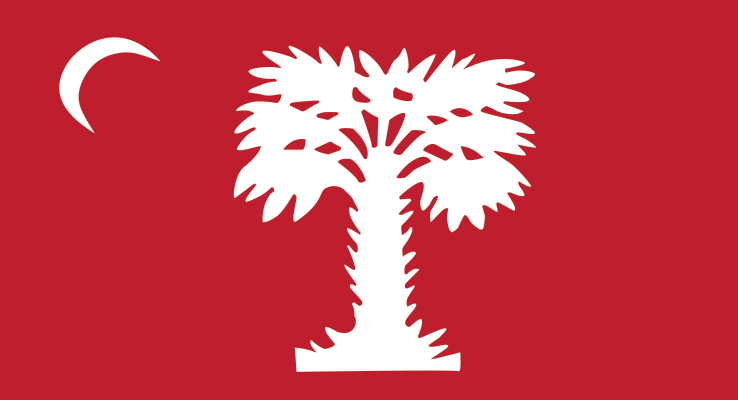 This design of "Big Red" is believed to be the one flown over Morris Island by Citadel cadets when they fired upon The Star of the West, an unarmed commercial steamer, entering Charleston Harbor on the morning of Jan. 9, 1861